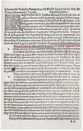 The first page of "Libretto de Tutta La Navigatione de Re De Spagna De Le Isole Et Terreni Novamente Trovati" (1504), printed in Italy. I have make up it.